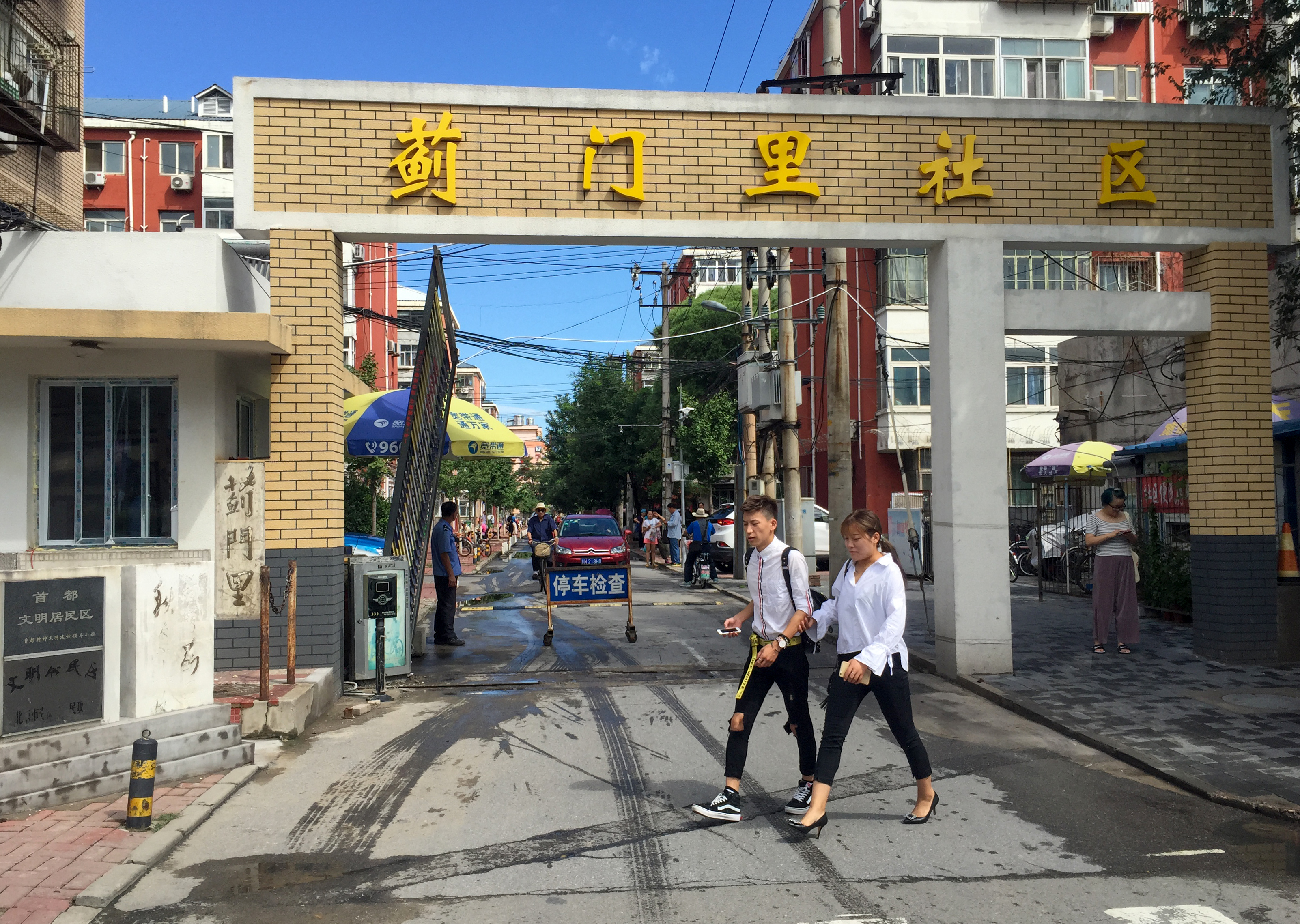 This is the base of the Doctor of Front-Engined Philosophy.